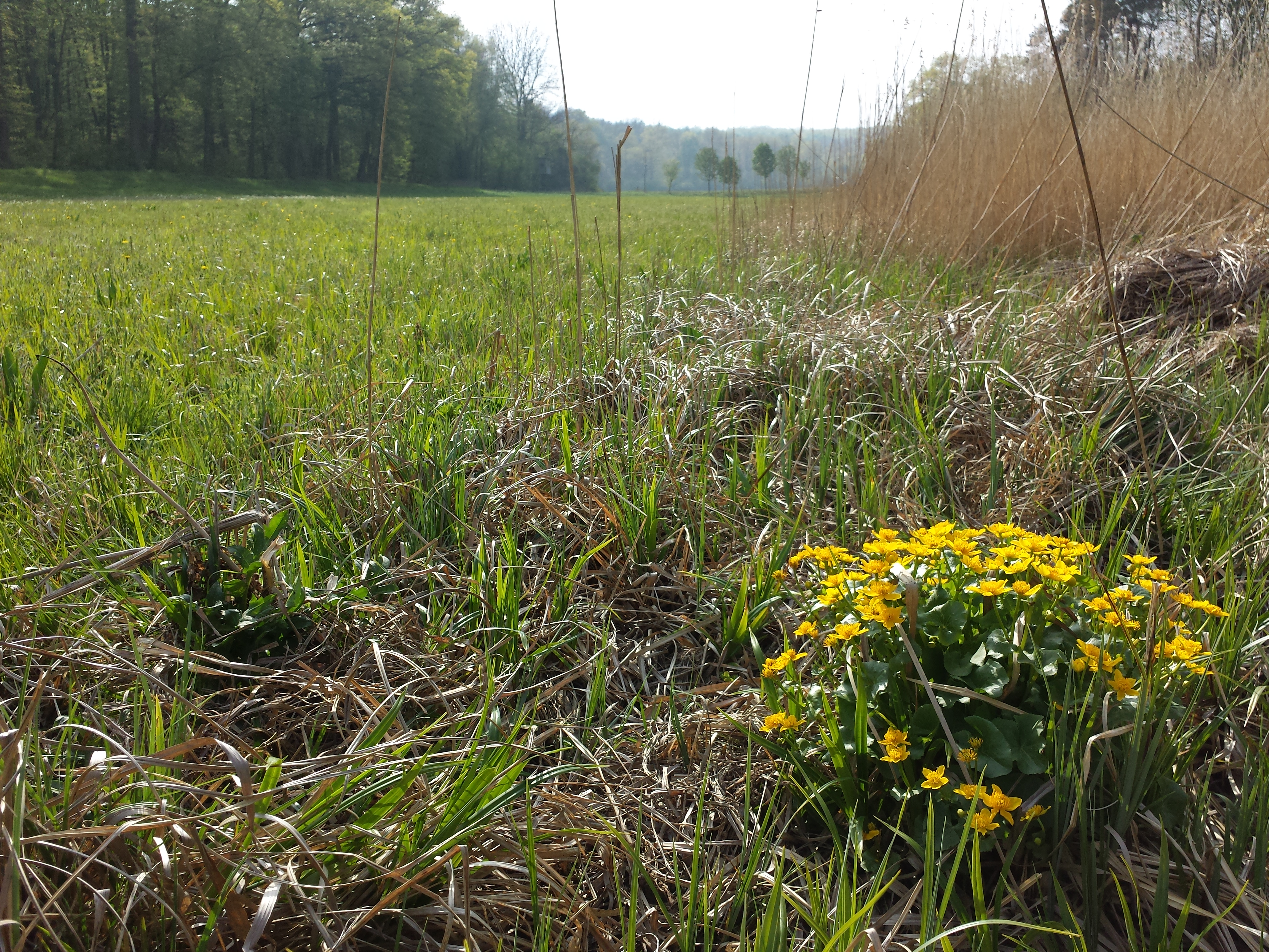 Habitat Taxon: Caltha palustris (sensu Fischer et al. EfÖLS 2008 ISBN 978-3-85474-187-9) Location: Rohrwald, district Korneuburg, Lower Austria - ca. 250 m a.s.l. Habitat: wet meadows